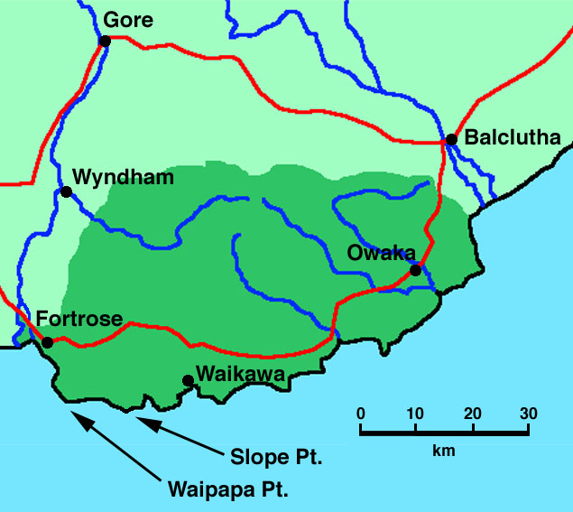 Mapa de The Catlins